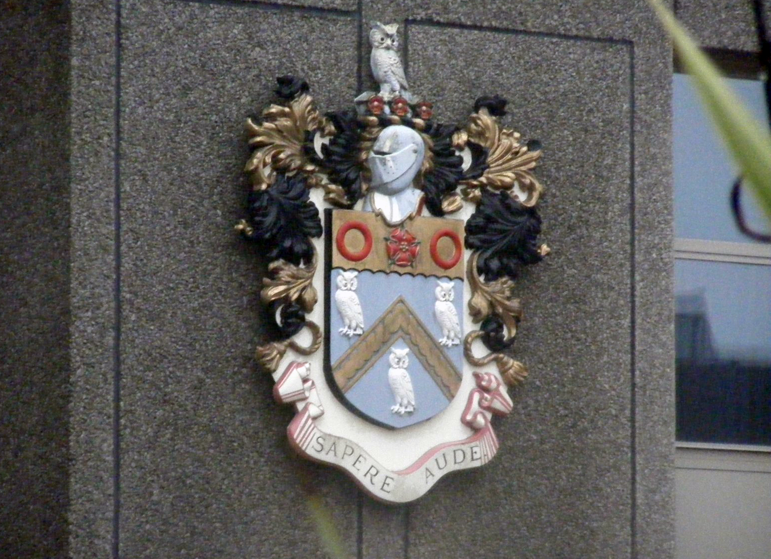 The Coat of Arms of the Oldham County Borough Council, as found at Oldham Police Station. The station predates the creation of the Oldham Metropolitan Borough Council, and thus still presents the redundant arms.